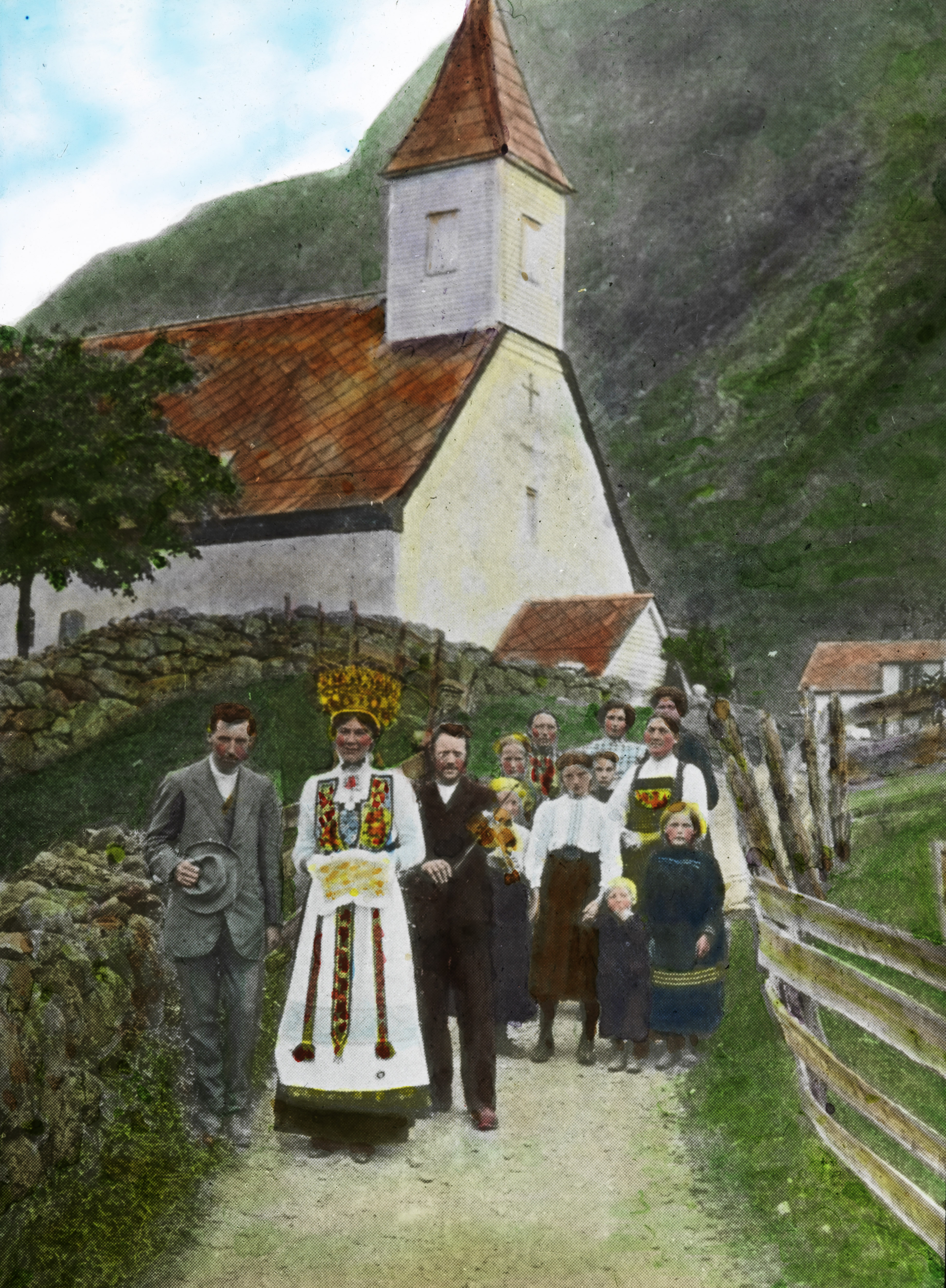 SFFf-1992078.0075 Original caption: "A peasant wedding, Hardanger". Photographer: Samuel J. Beckett